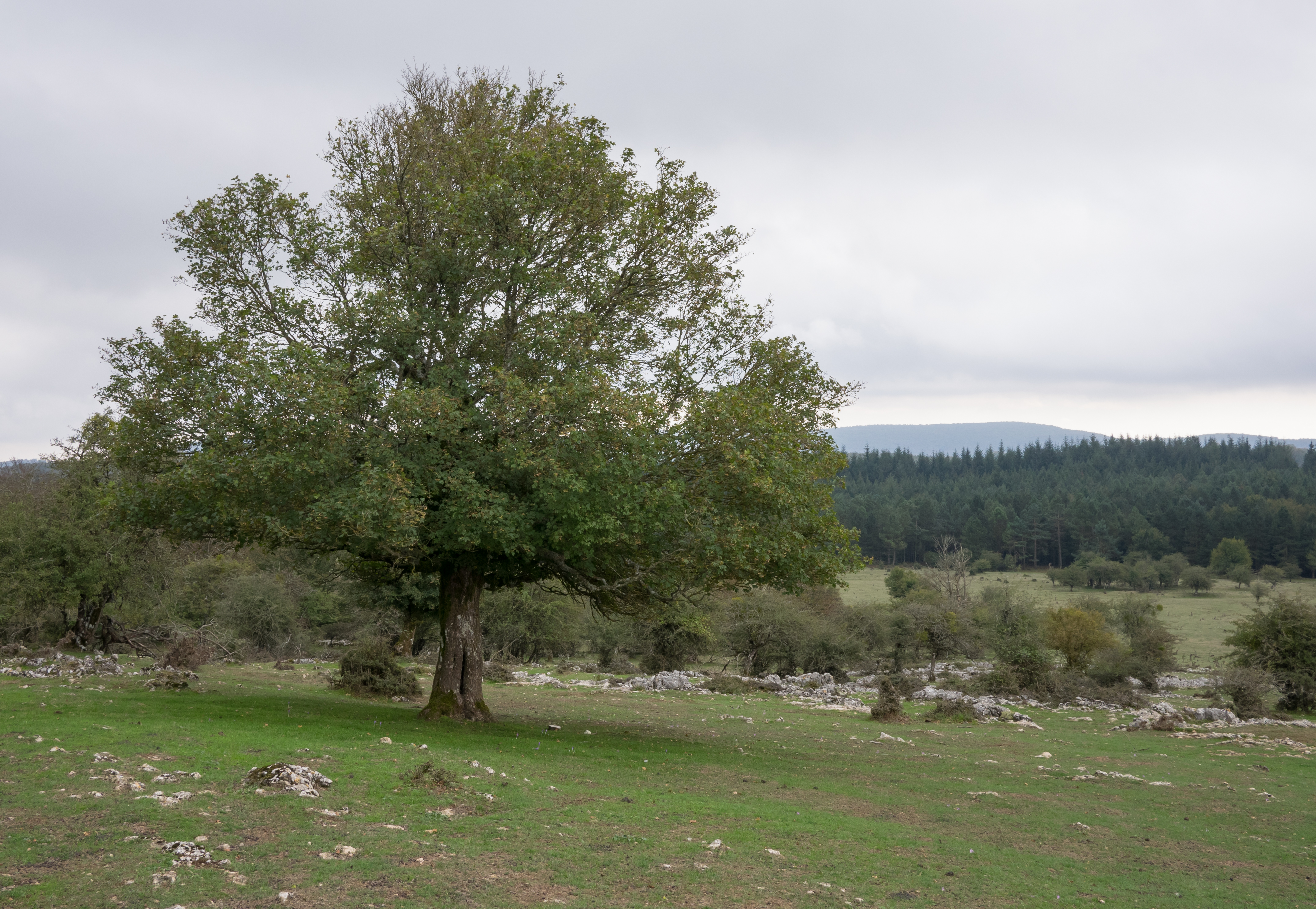 Field maple on a meadow near the Opakua mountain pass. Álava, Basque Country, Spain